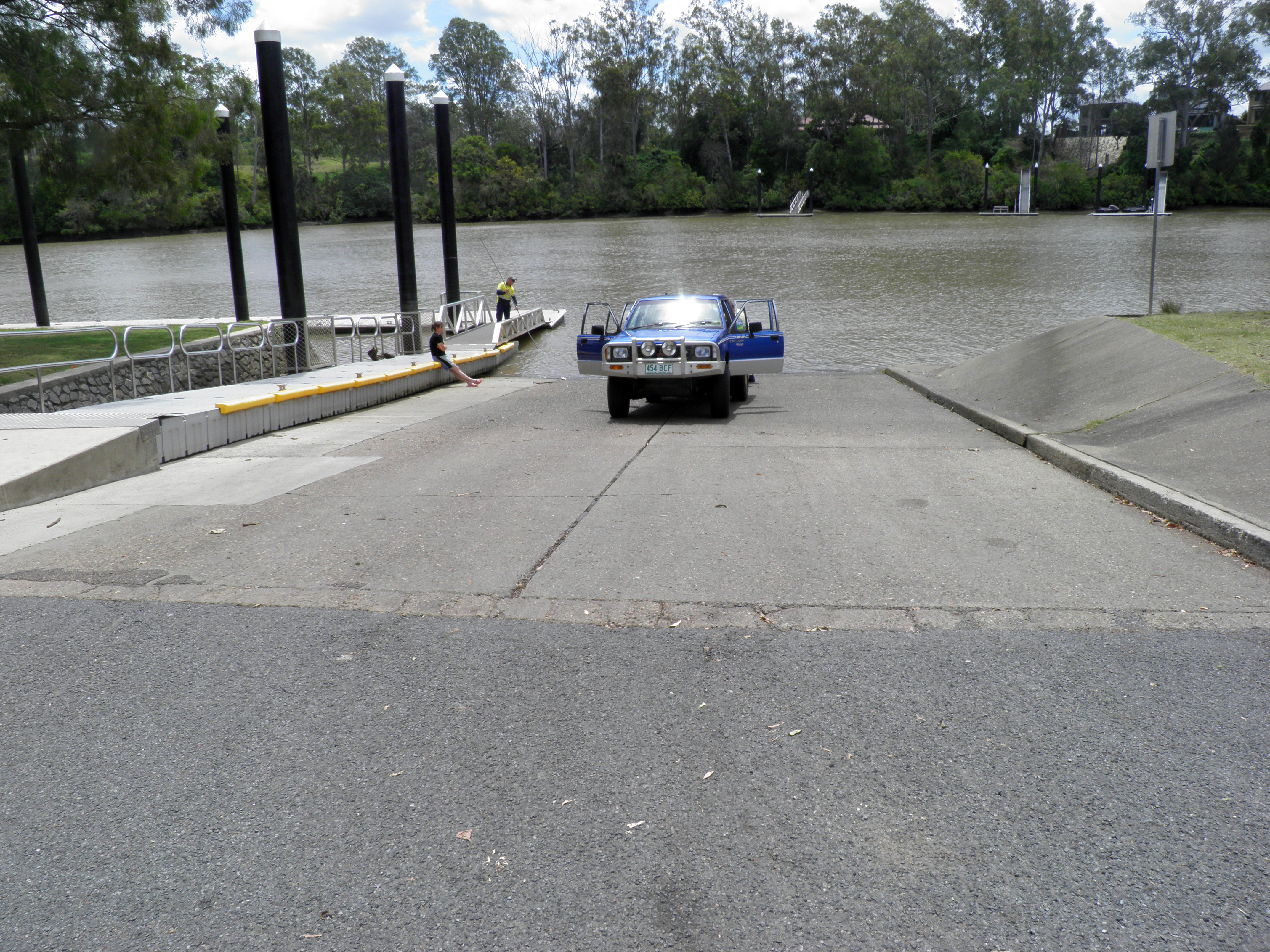 Double boat ramp at Jindalee Boat Ramp Park, Jindalee. There is also a single pontoon in this park.